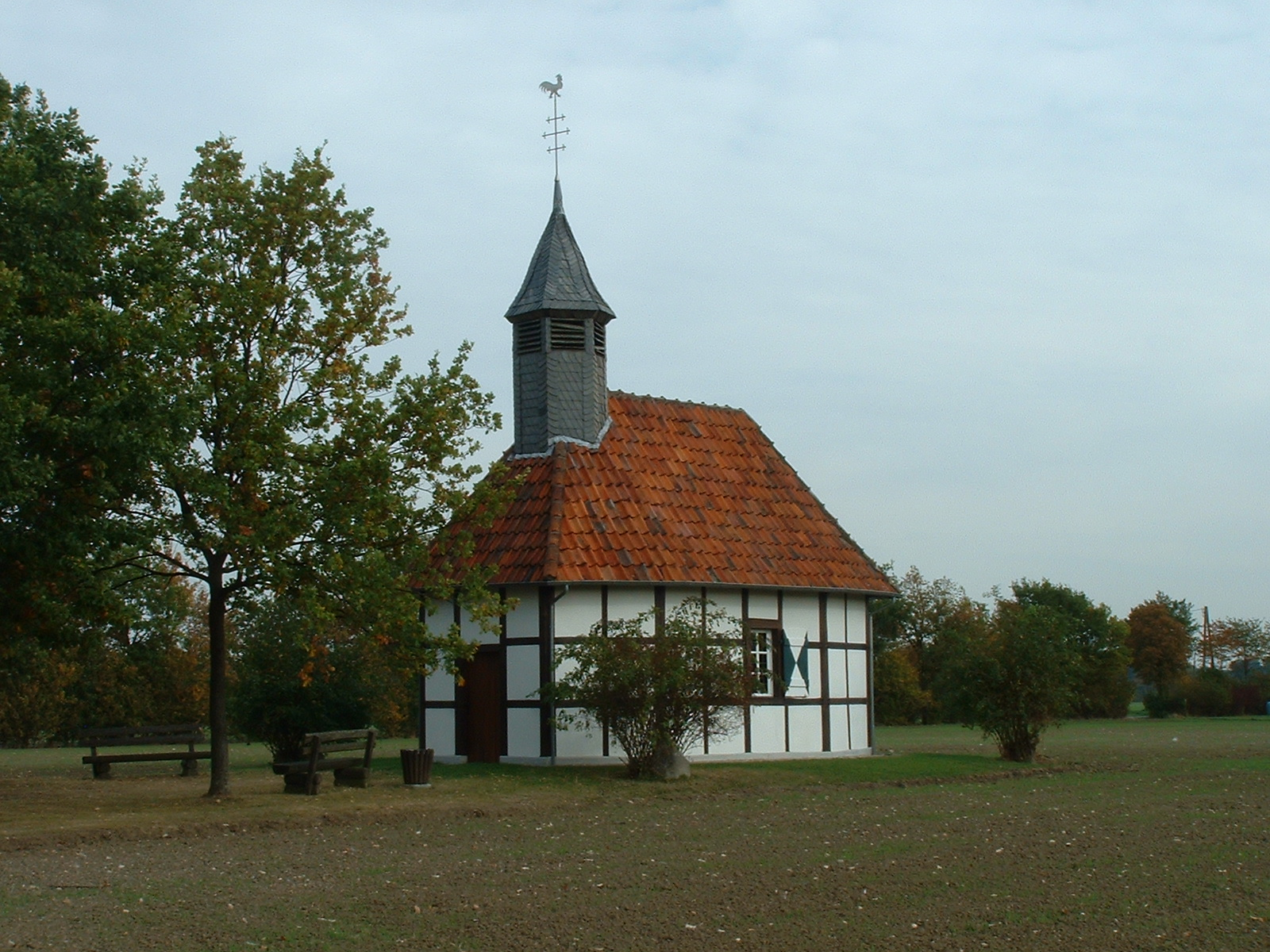 View of the Rückämper chapel in Enniger